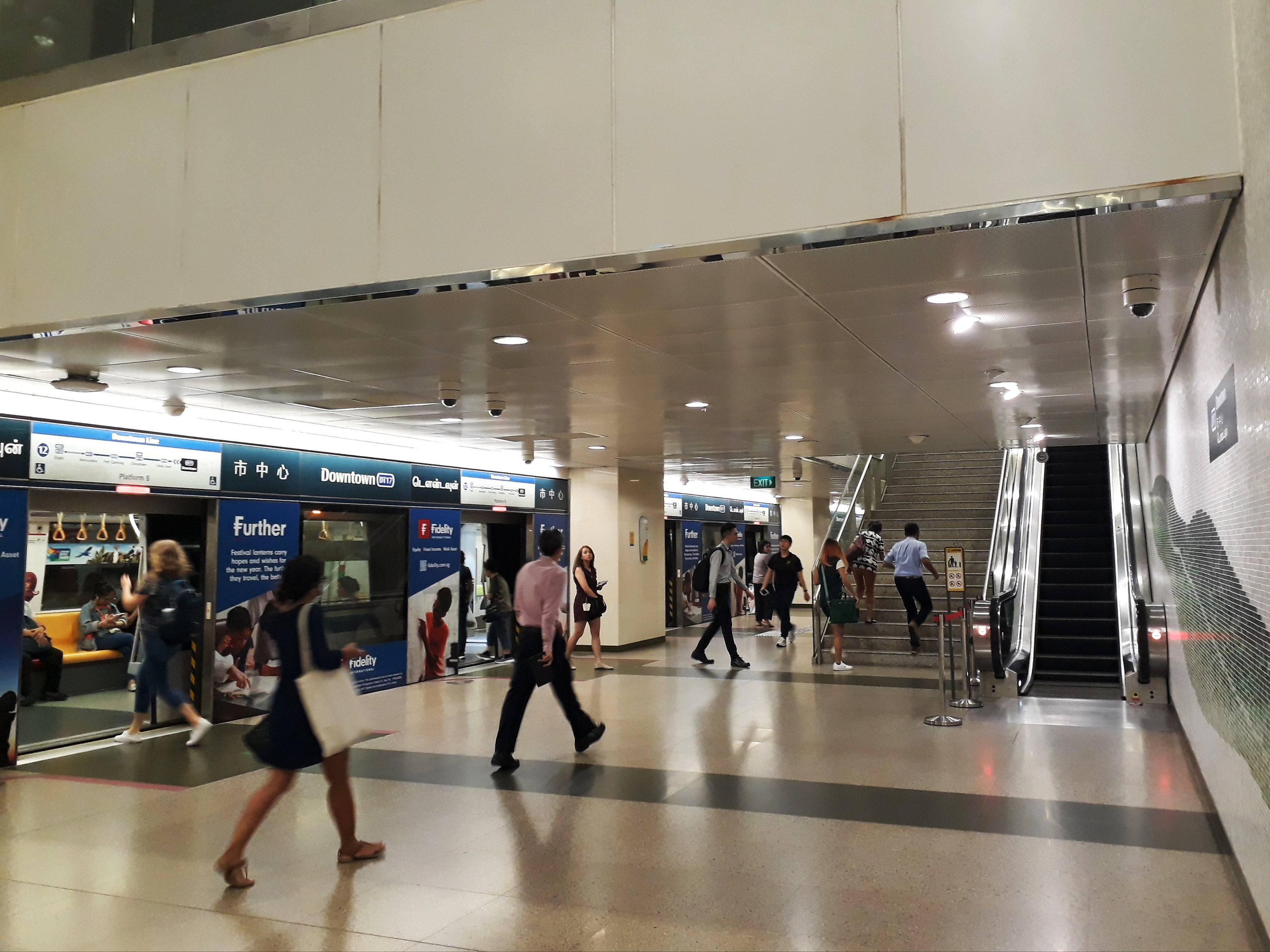 Downtown station Platform B